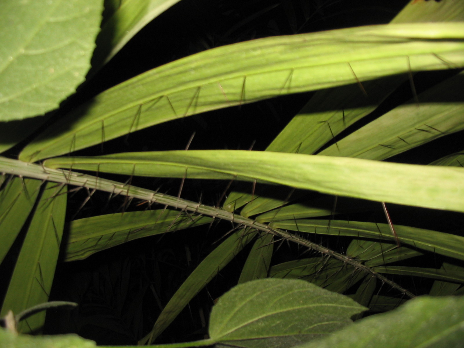 Aiphanes horrida in the botanical Garden Jena (Leaf Details)